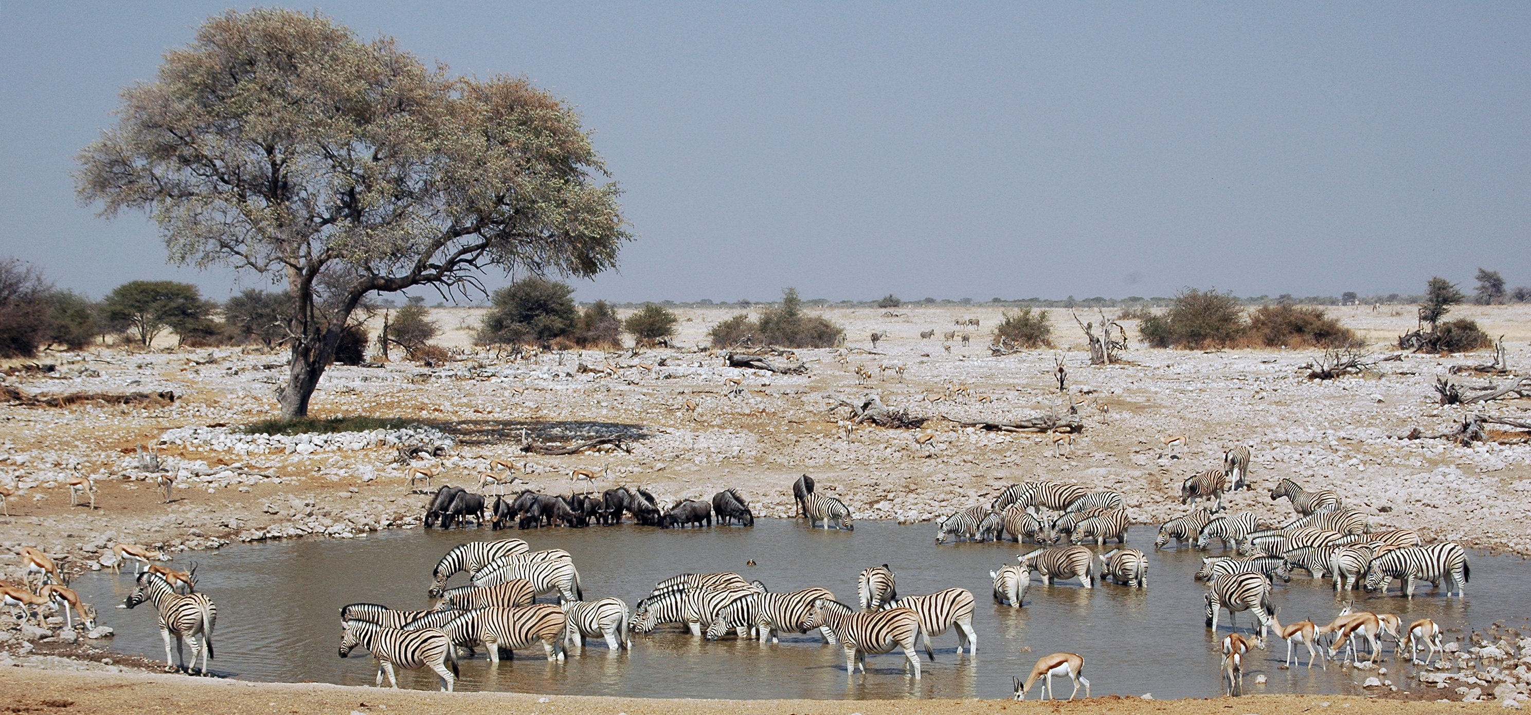 Namibie Etosha National Park Zèbres, Okaukuejo waterhole Photographie prise par GIRAUD Patrick